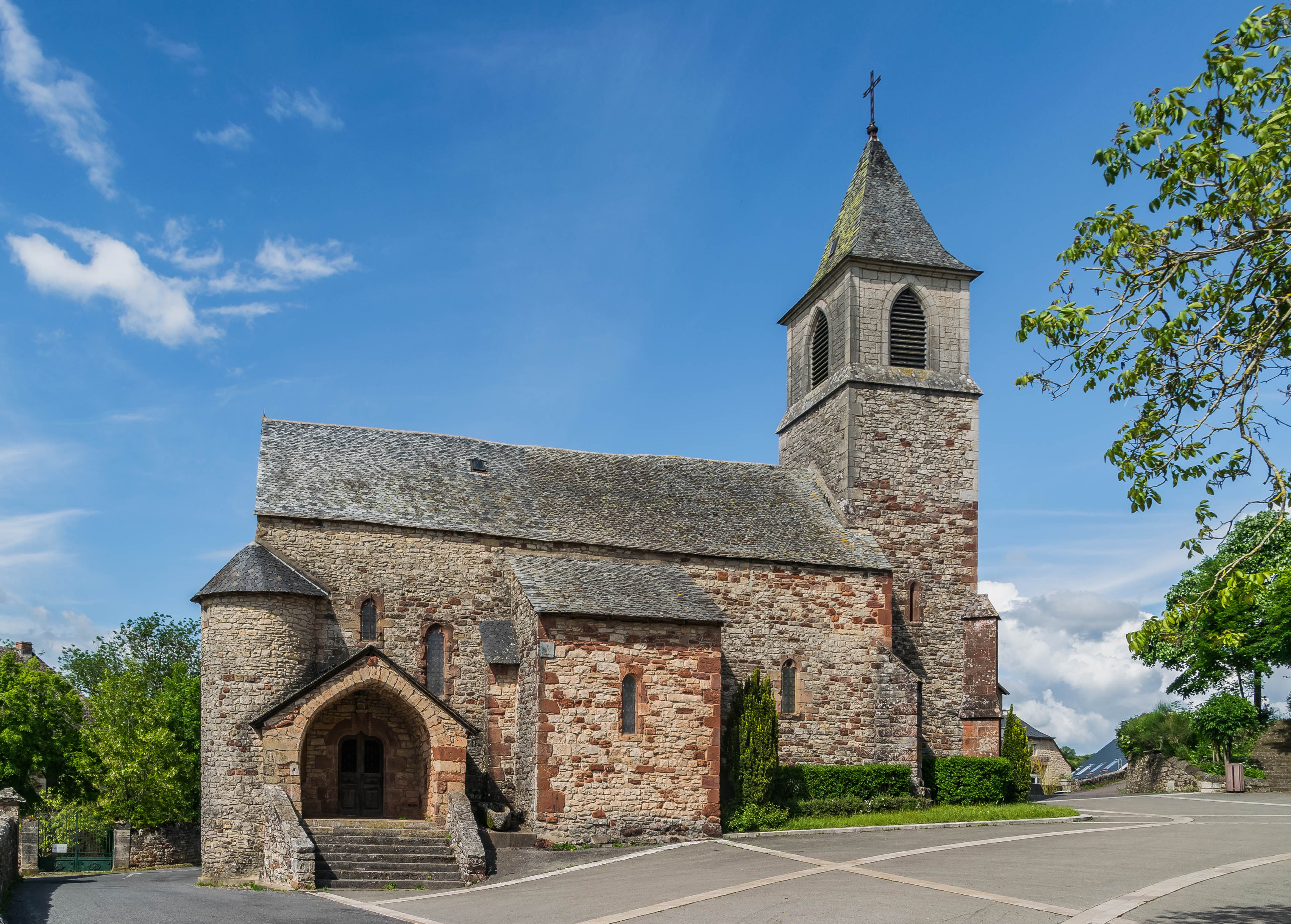 Church of Saint-Mayme in commune of Onet-le-Château, Aveyron, France